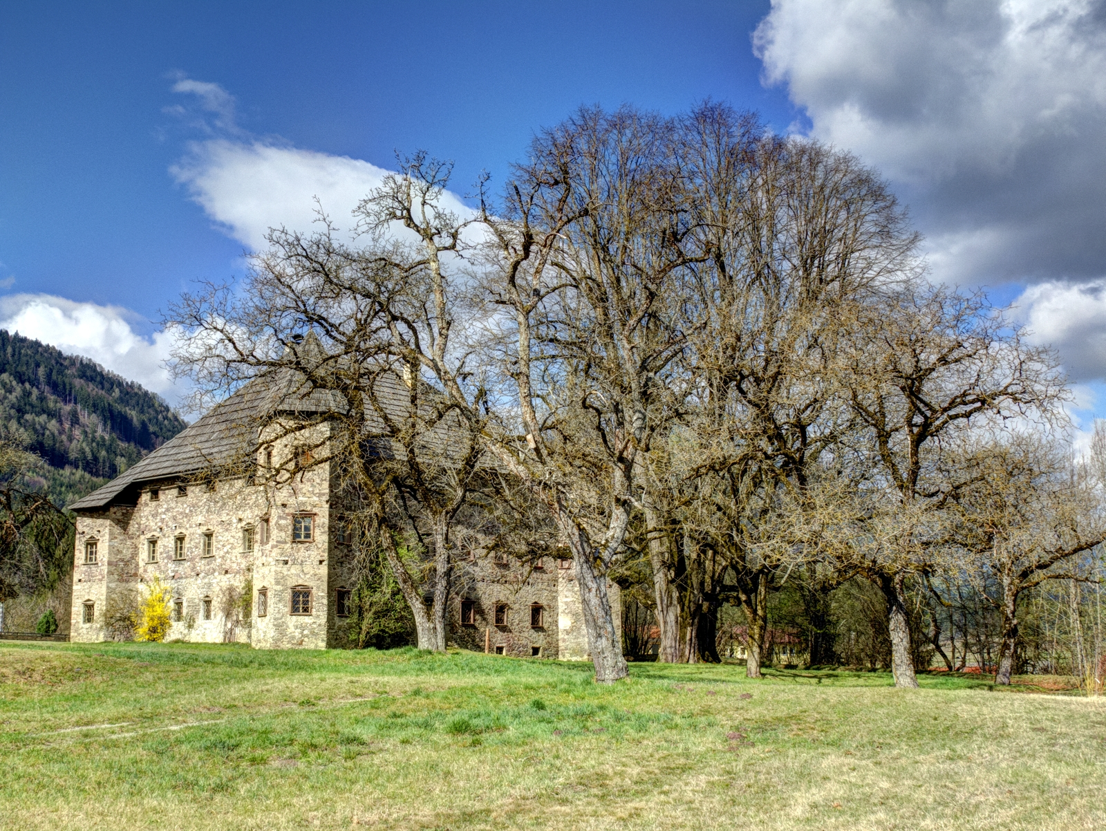 East and north side of Pöllan Castle, courtyard of an administrator, in Pöllan at Paternion around 2011, district Villach-Land in Carinthia / Austria / EU. The still not finished construction of rubble stone was built by Christoph von Haidenreich from 1598 to 1616. He was a Protestant administrators of the county Paternion, who was forced by the Catholics in Carinthia for sale and into exile. From 1616 the castle was owned by Moritz Christoph Khevenhüller. Since 1629 the castle is owned by the family Widmann, today the family Widmann-Foscari Rezzonico. This media shows the natural monument in Carinthia with the ID VL 15.